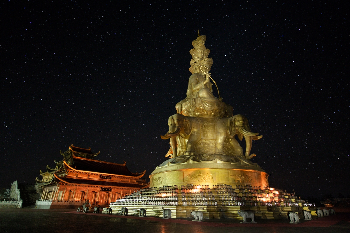 In a dark starry night of the world heritage site of Mount Emei in China ,The Spring constellation of Corona Borealis,Virgo and corvus rises above the golden summit of Mount Emei. Mount Emei is a place of historical significance as one of the four holy lands of Chinese Buddhism. The golden summit is the second highest peak of the mountain (3077 above sea level) and this is the location of the first Buddhist temple built in China in the 1st century CE when Buddhism was introduced from India via the Silk Road . The Bodhisattva Samantabhadra is said to have visited the mountain astride a six-tusked elephant, and is considered the mountain’s patron deity. The giant golden 48m (157ft) statue in the picture is called The Ten Directions Samantabhadra Bodhisattva,which was completed in 2006.